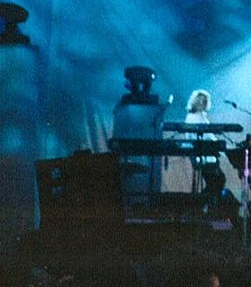 Yes, live performance in Montreal, Canada, June 19, 1998.